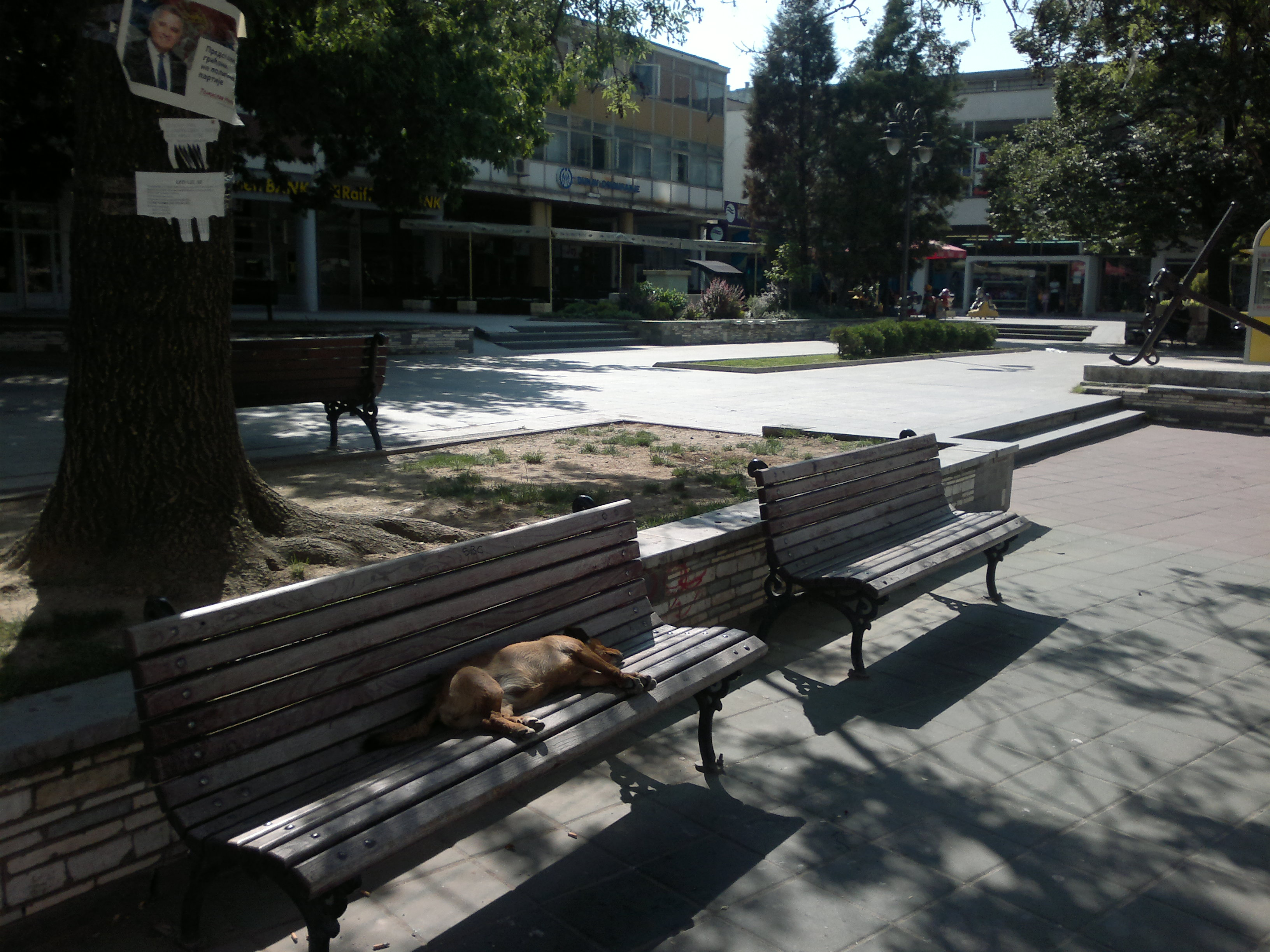 Mladenovac town square